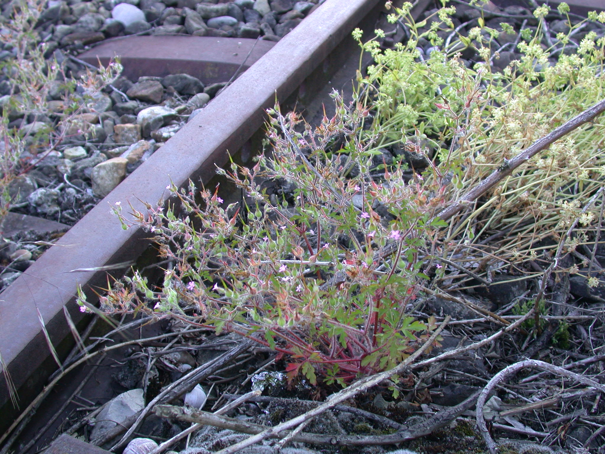 Geranium purpureum (= Geranium robertianum subsp. purpureum, Geraniaceae), at the railway station of Bellach, Canton of Solothurn, Switzerland